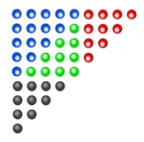 Triangular number made of 3 equal triamgular numbr. ja one larger is a triangular number